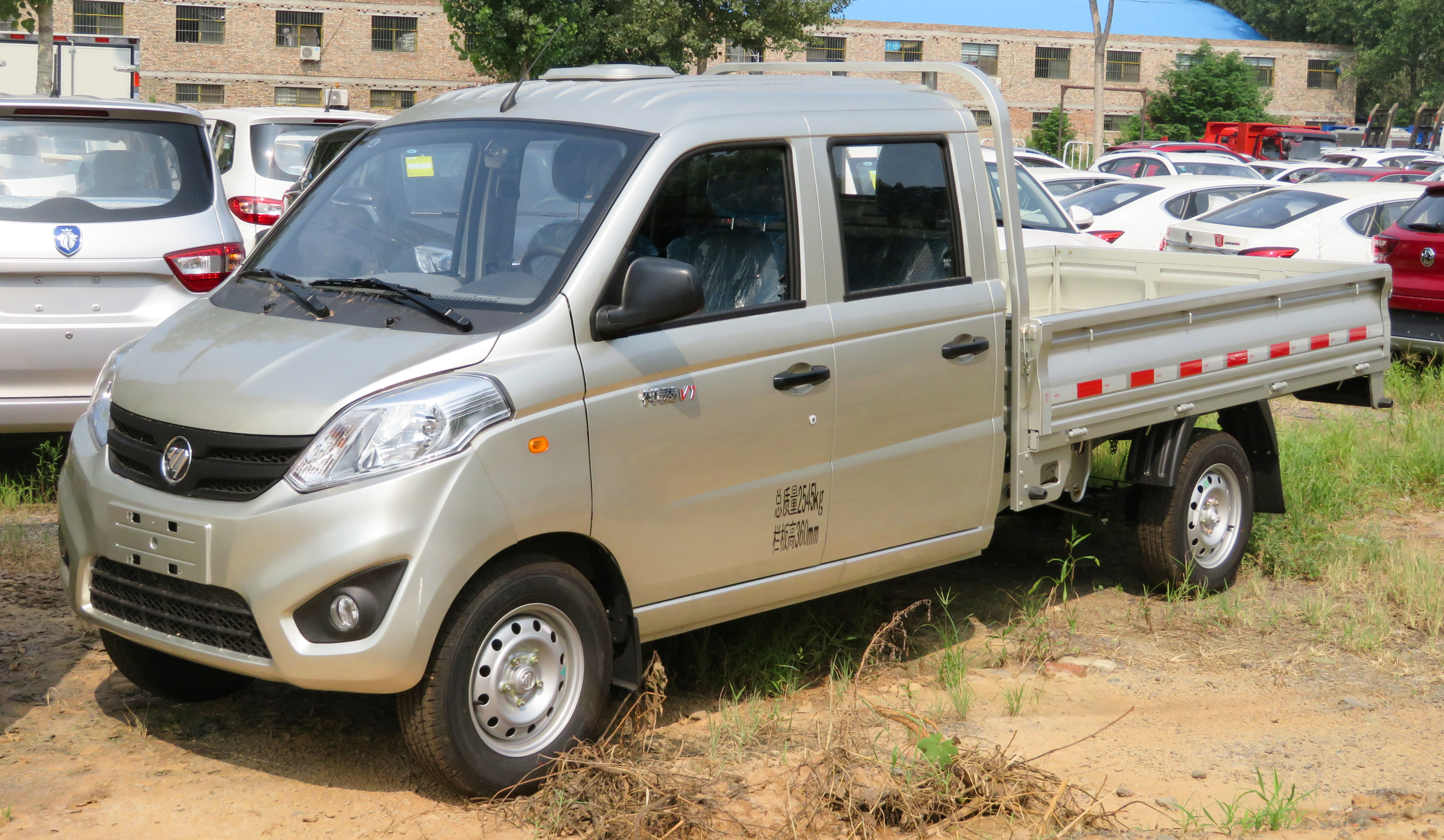 A 2018 Beiqi-Foton Xiangling V1 double cab photographed at a dealership in Luoyang, Henan province, China